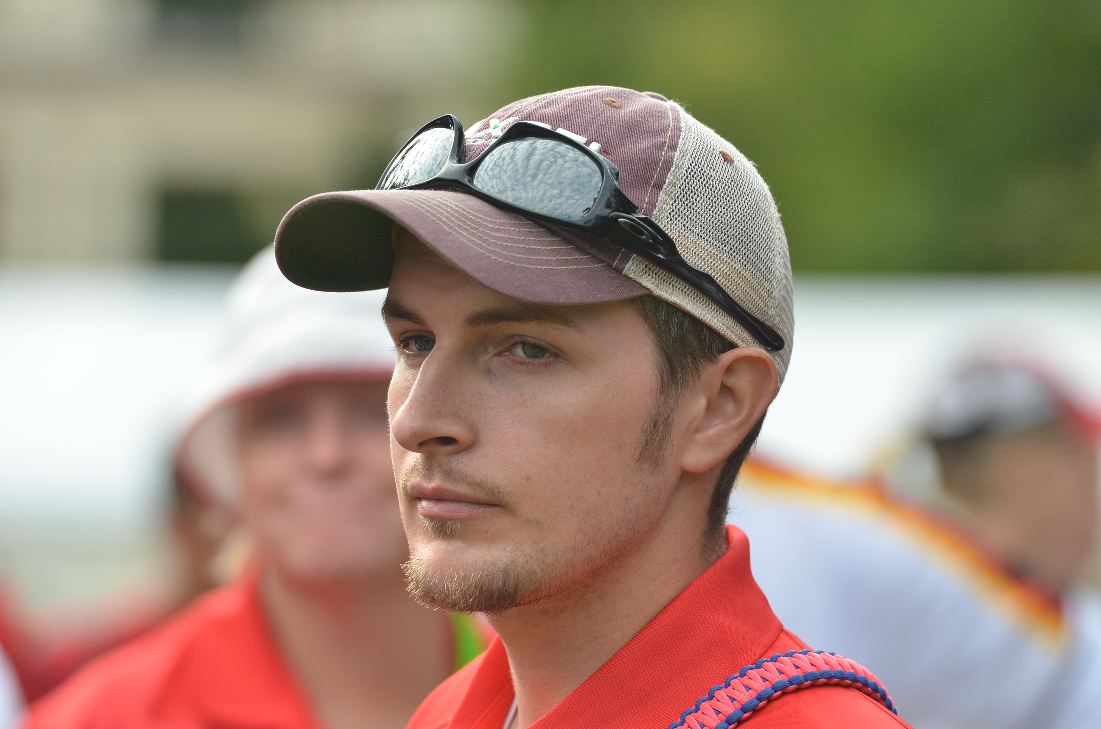 Jesse Broadwater in Zagreb, August 2014